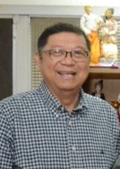 William "Butch" Ramirez